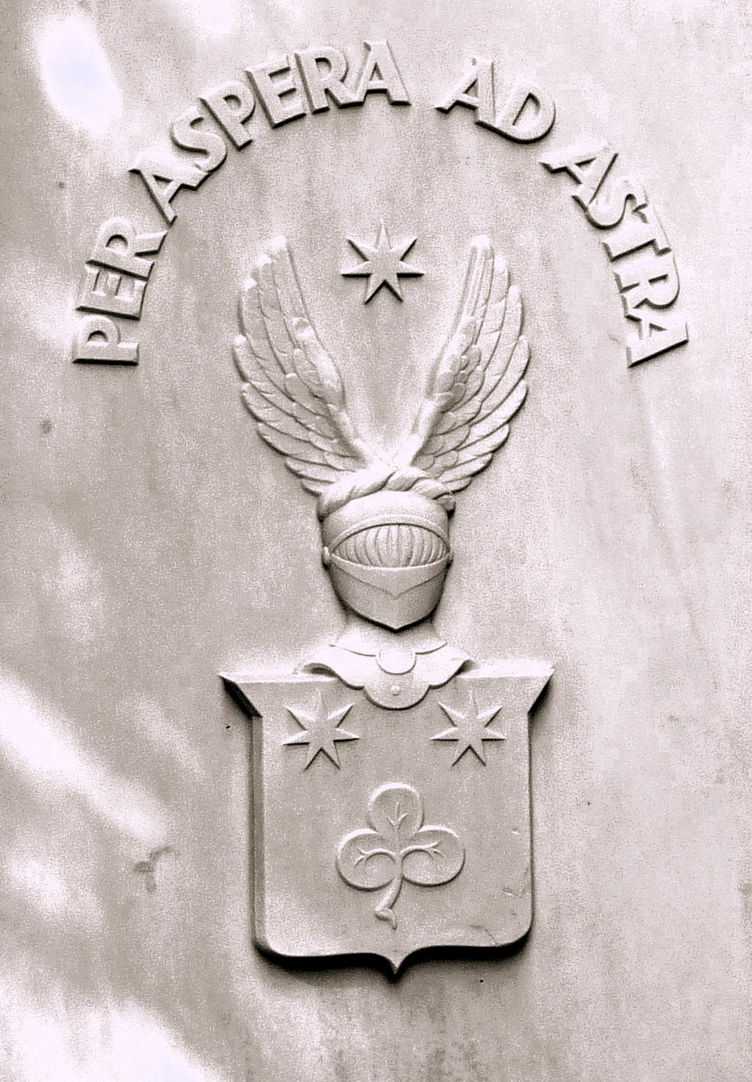 Emblem of the familie Sieveking; cemetery in Hamburg-Nienstedten